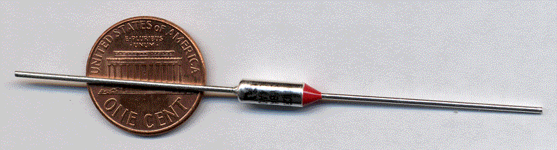 Thermal fuse